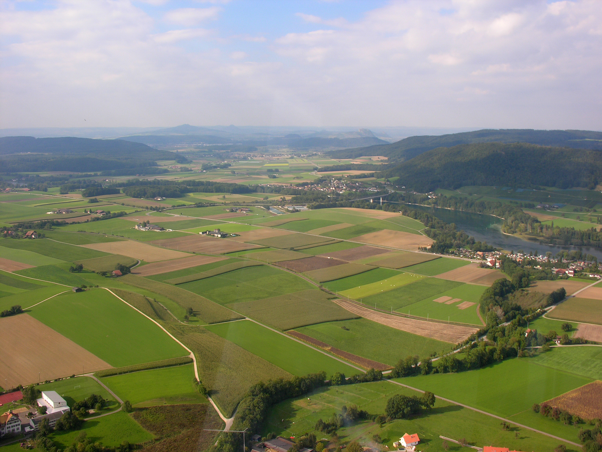 Switzerland, Thurgau, Overhead Wagenhausen with view on the Rhine and Hegau in the background